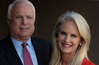 Senator John McCain and his wife Cindy. Official photo